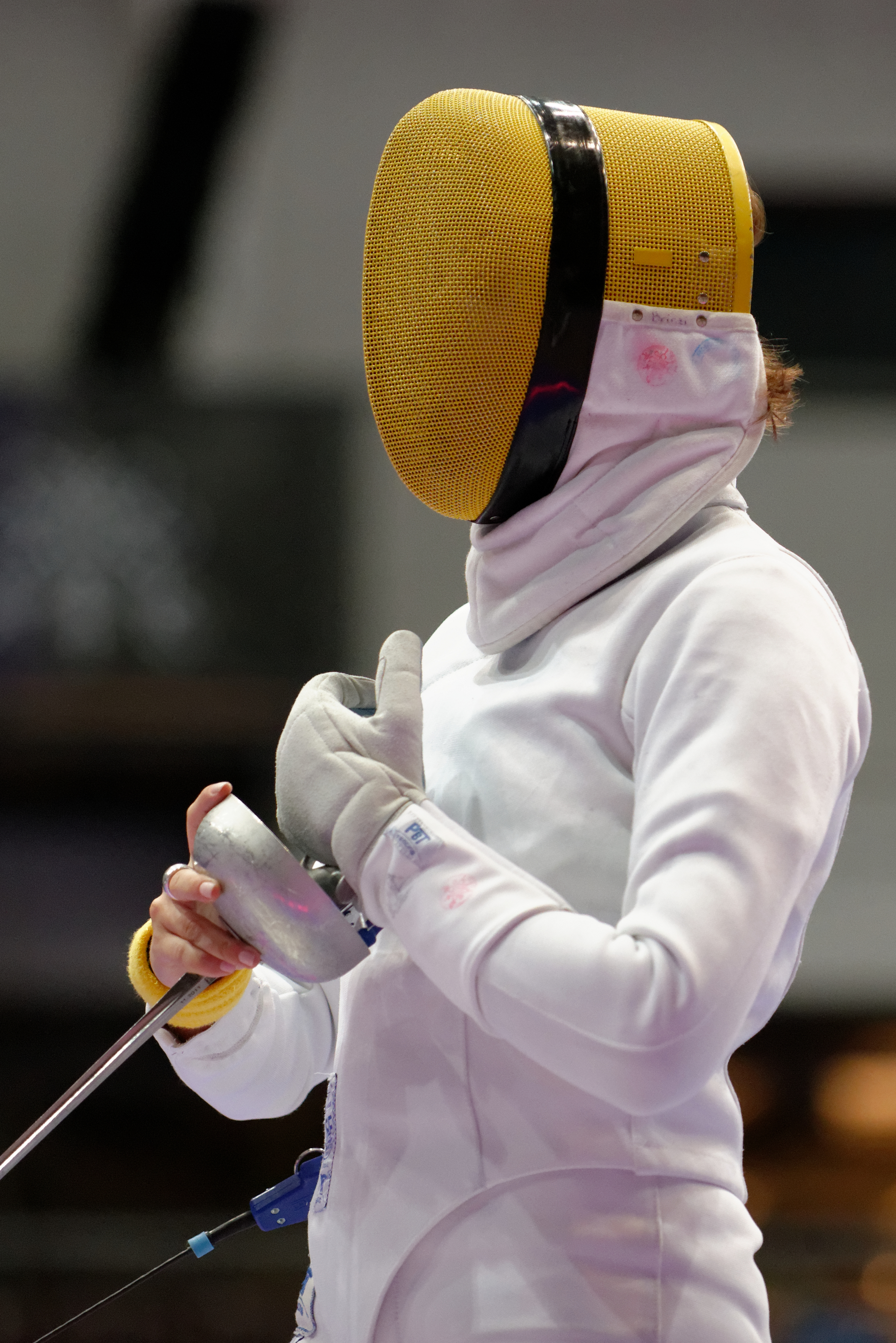 Ana Maria Brânză of Romania during her bout against Sweden's Johanna Bergdahl in the women's épée table of 64 at the 2013 World Fencing Championships 2013 at Syma Hall in Budapest, 8 August 2013.